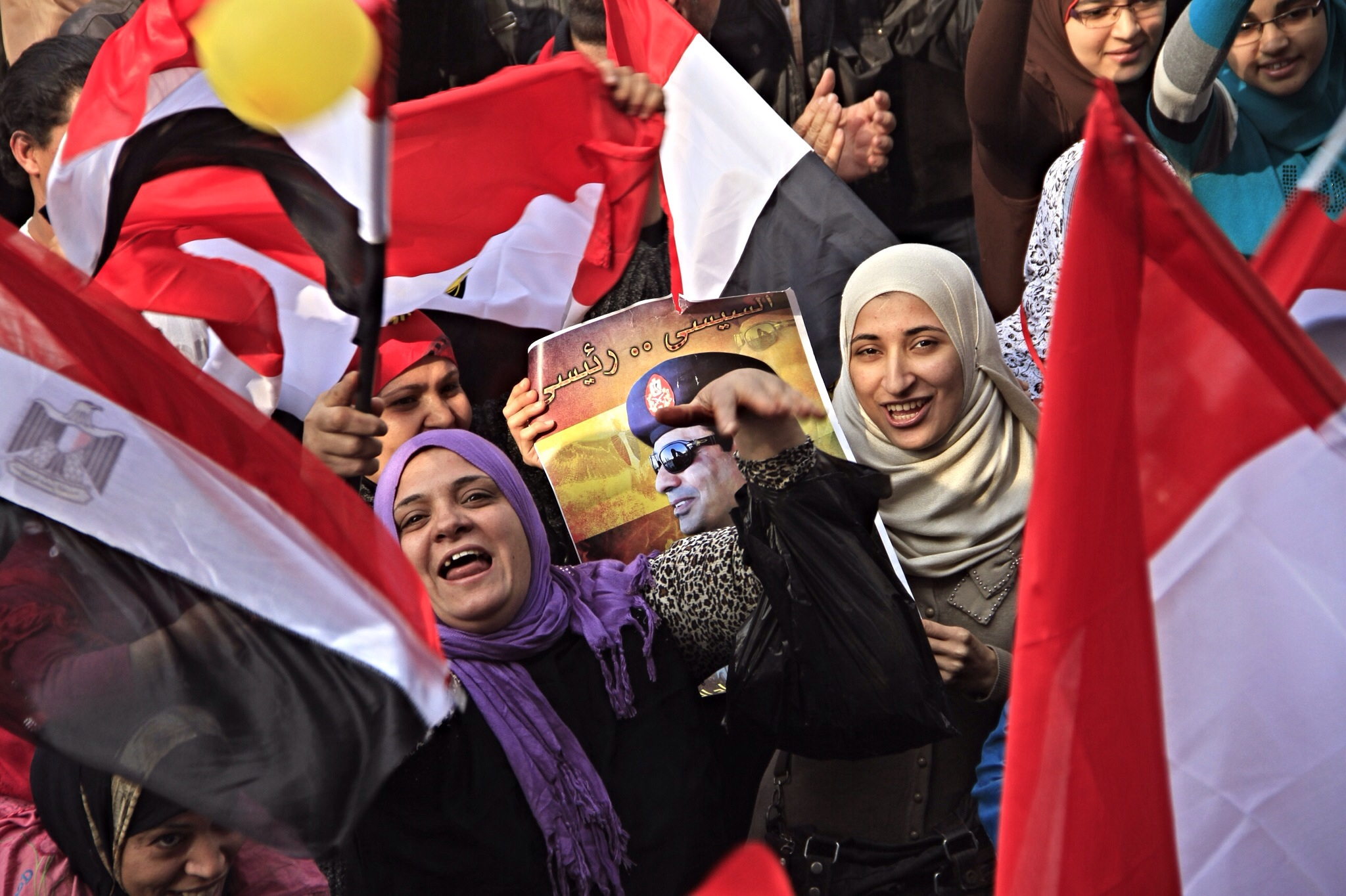 Original description: "Participants hold flags, pictures of General Abdel Fateh el Sissi, (Hamada Elrasam for VOA)."